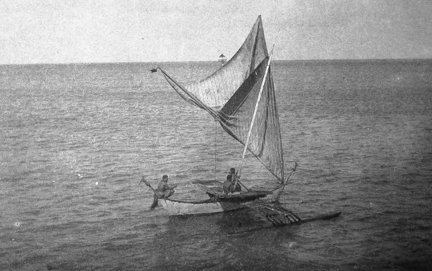 "Marshall Group, Jaliut Lagoon, sailing canoe on starboard tack brailed up to "spill" the wind which is too fresh." from